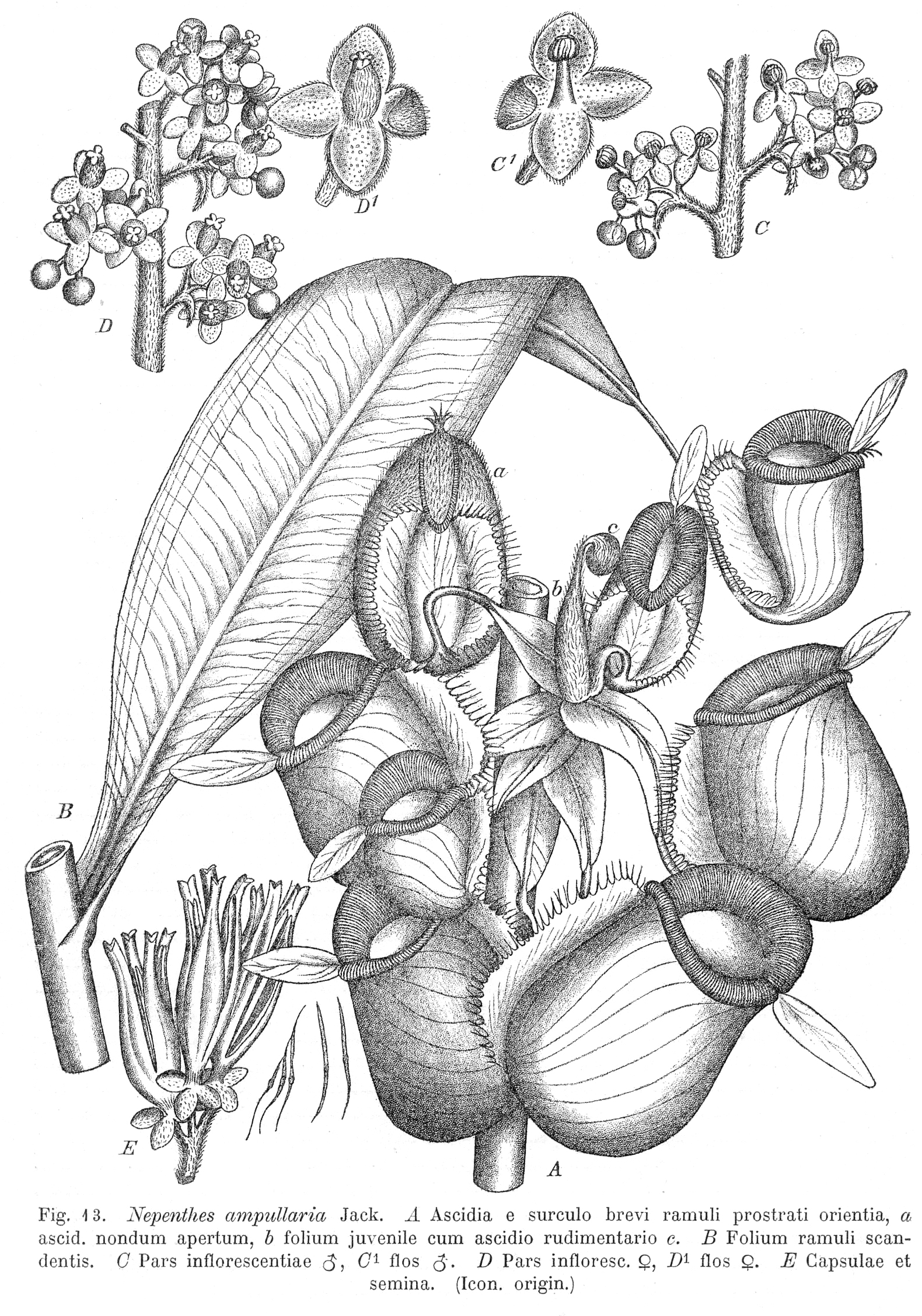 Illustration of Nepenthes ampullaria